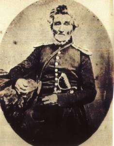 This photo is of Major Benjamin Milliken II which is reproduced on several web sites and in a book of the Markham Historical Society